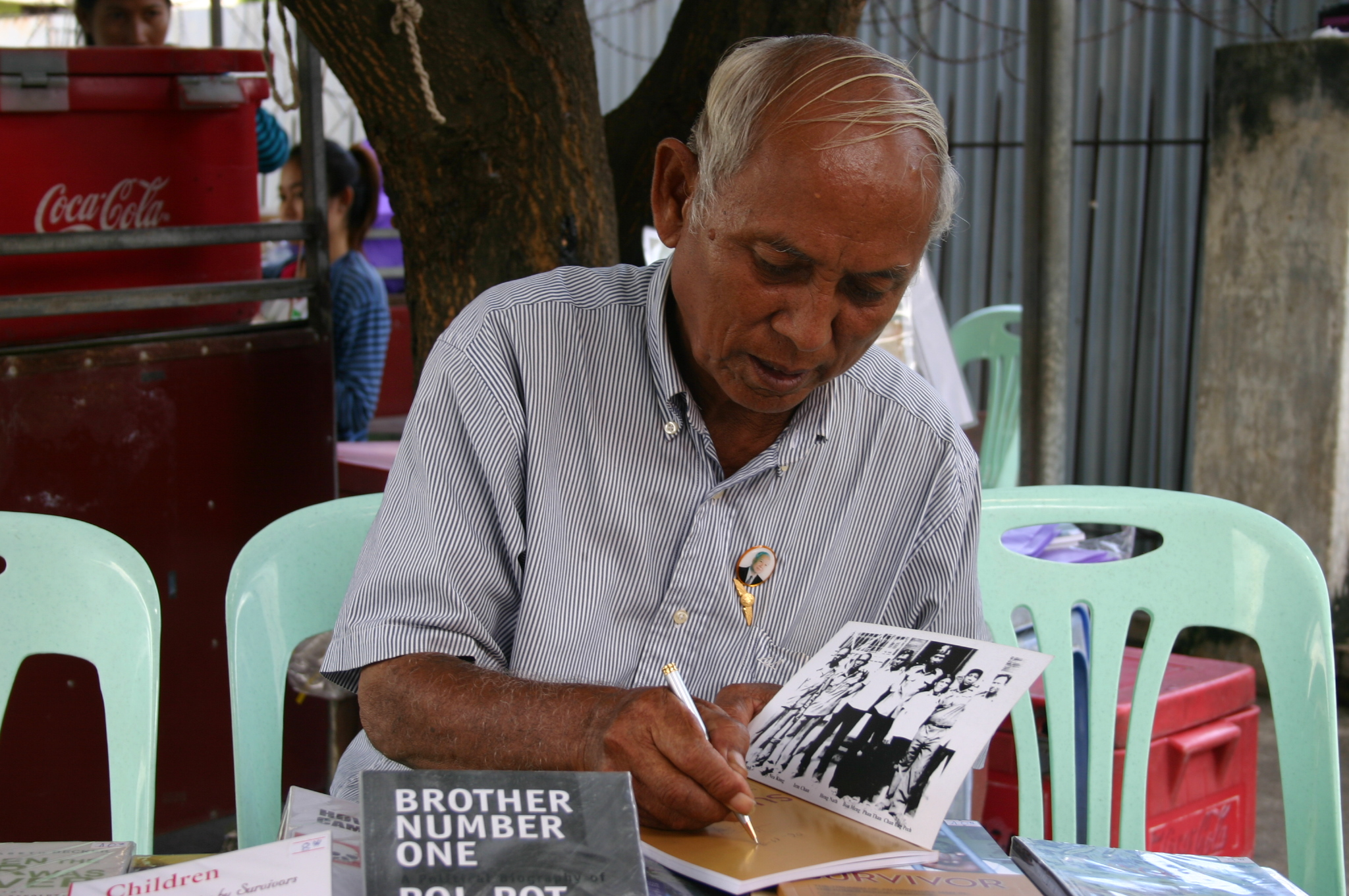 Chum Mey, survivor of Tuol Sleng signing his book